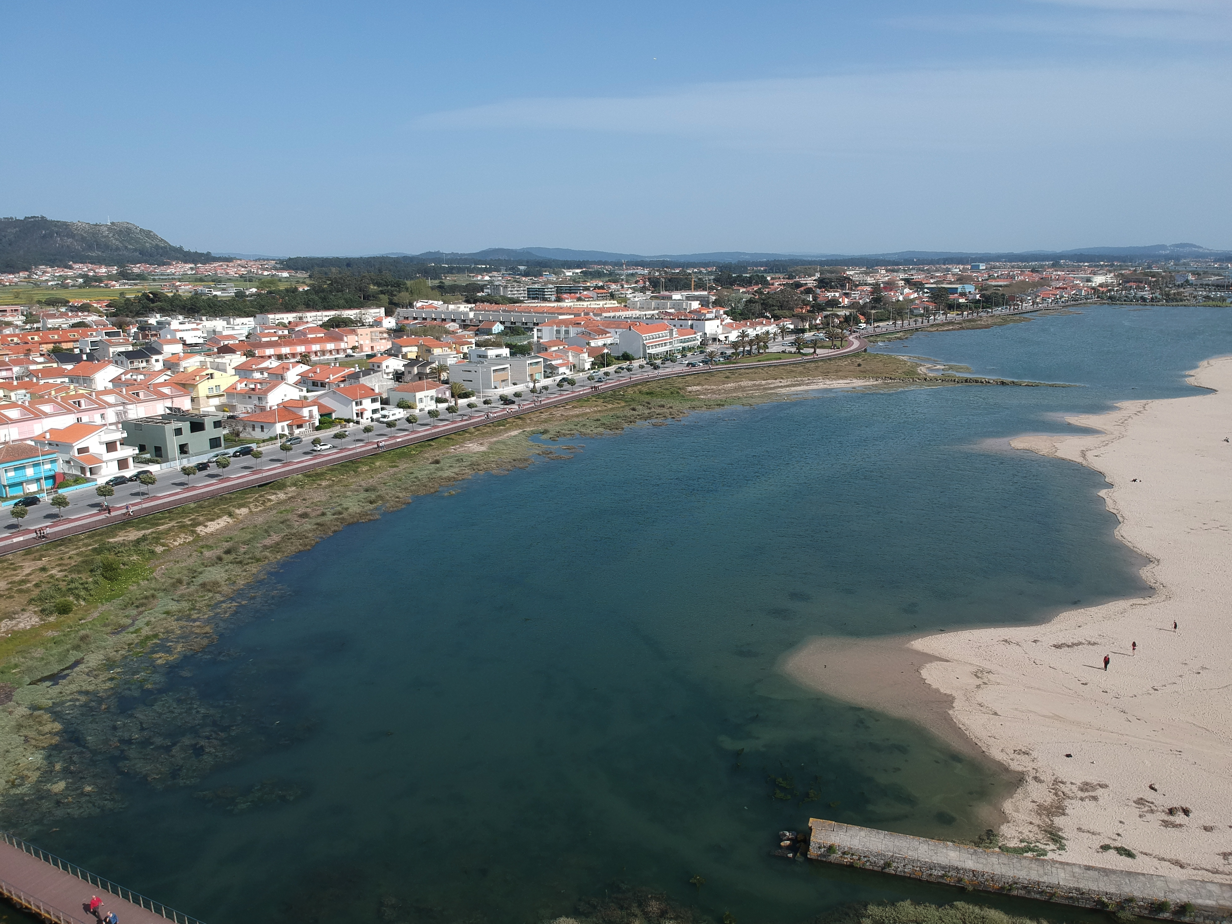 Aerial photograph of Esposende, Portugal.